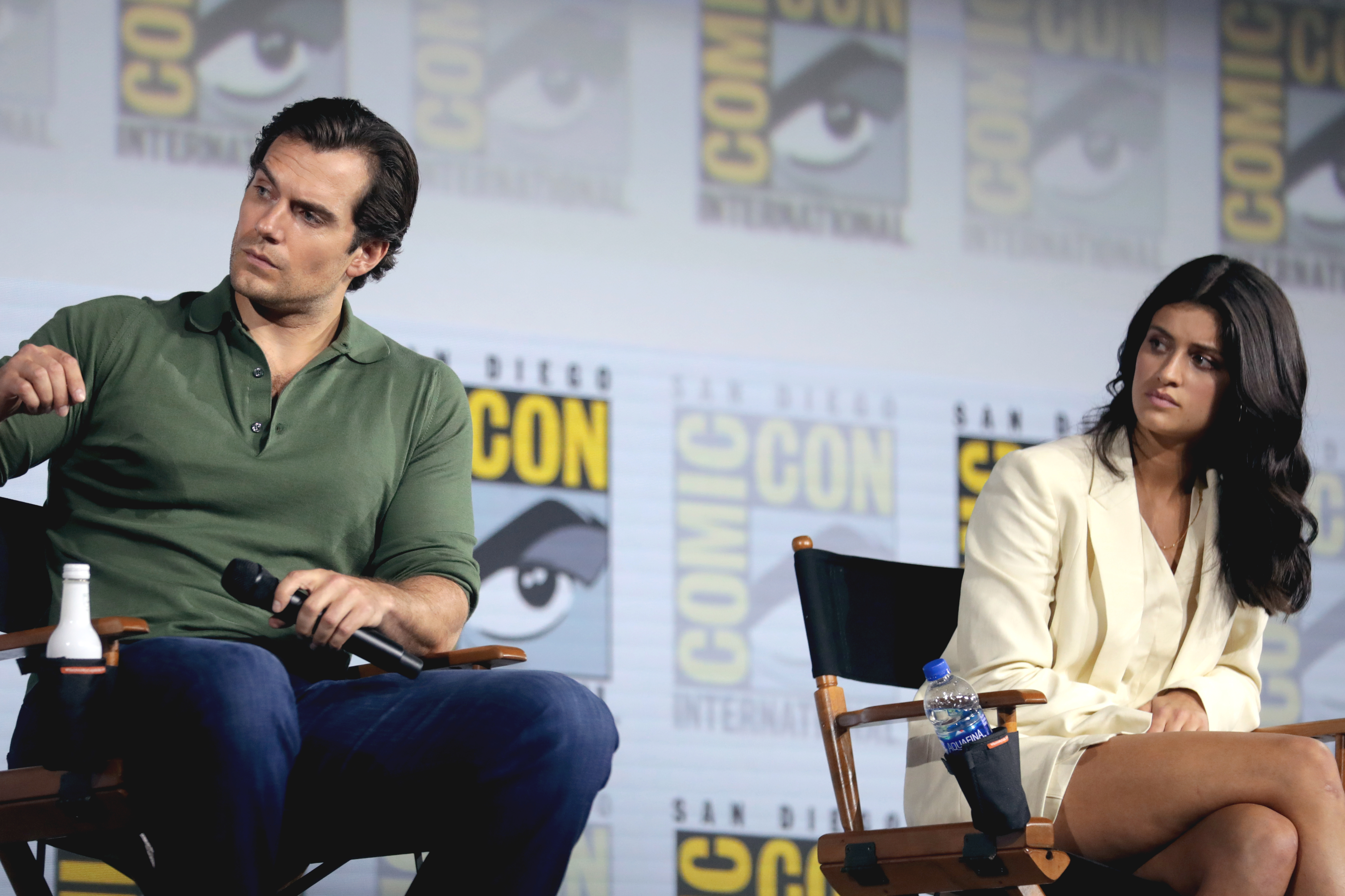 Henry Cavill and Anya Chalotra speaking at the 2019 San Diego Comic Con International, for "The Witcher", at the San Diego Convention Center in San Diego, California.